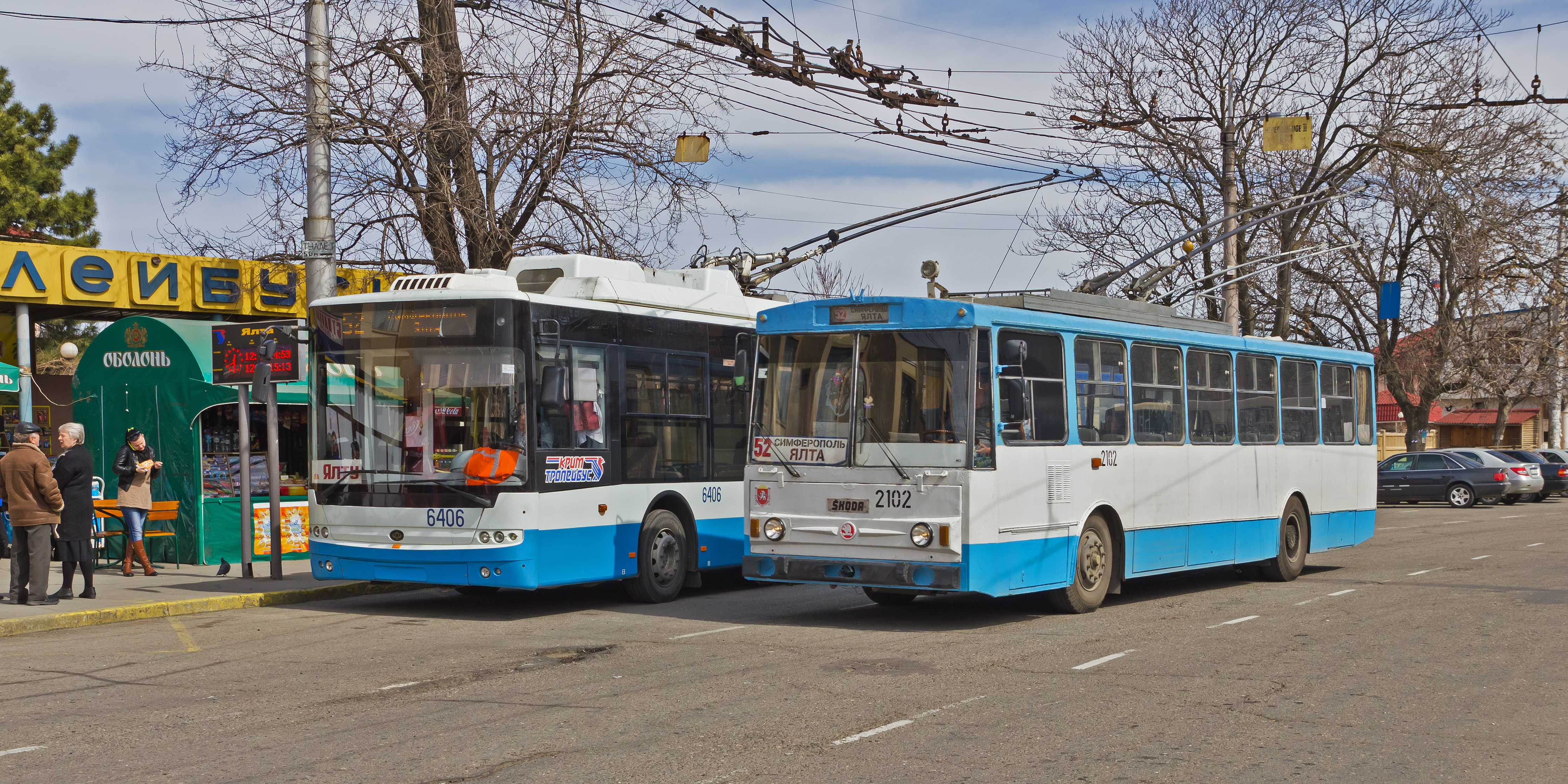 Two interurban trolleybuses (Bogdan T601 and Škoda 14Tr) at the train station in Simferopol, Crimean Peninsula.